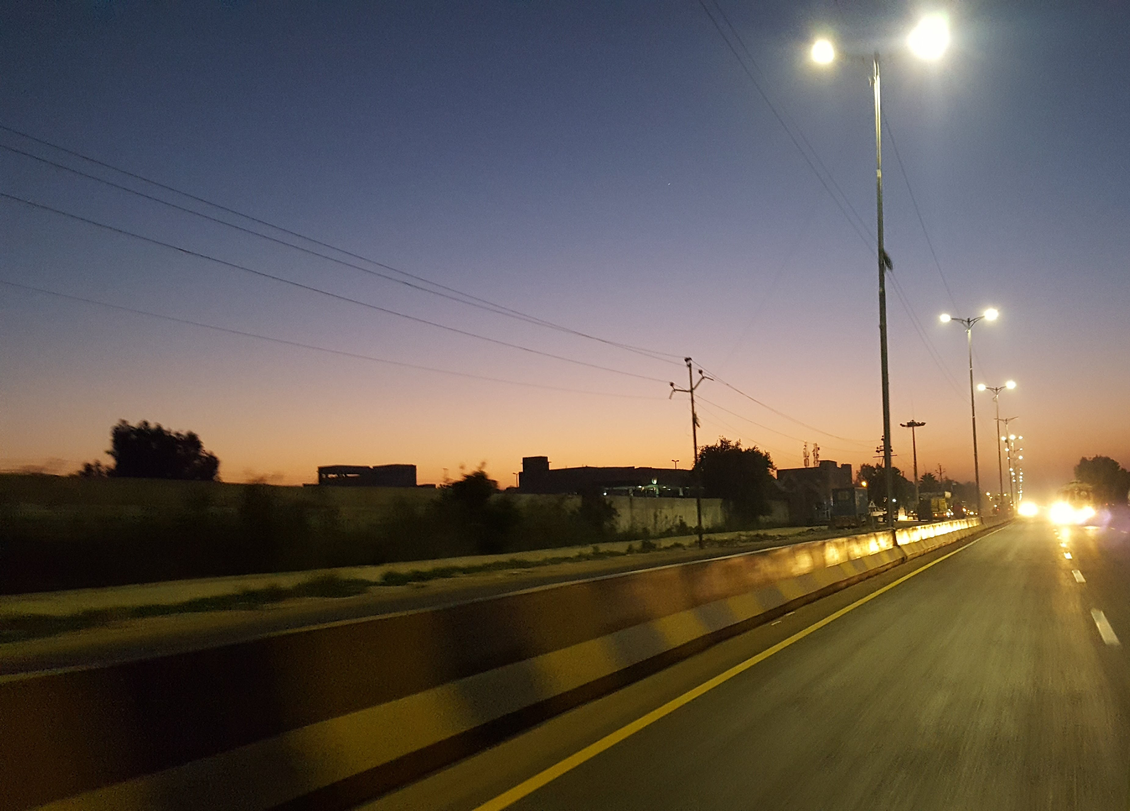 N-25 as a Dual-Carriageway in Karachi.